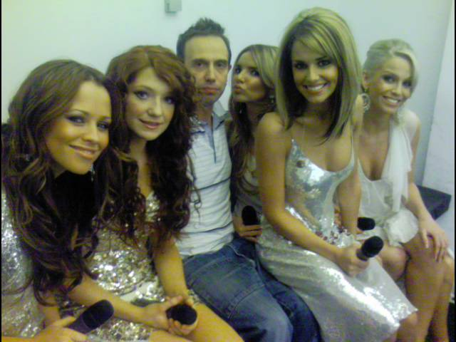 Terry Ronald with Girls Aloud